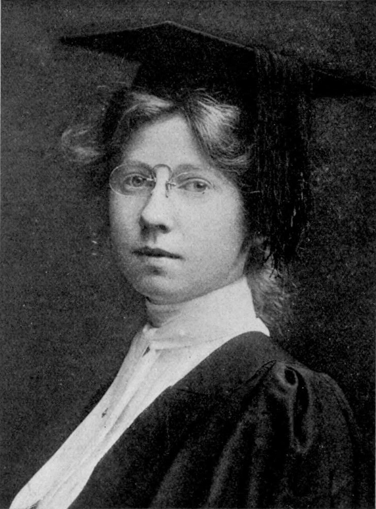 Imogen Cunningham, 1907. Credited to Edward Curtis Studio, where Cunningham worked after graduating from the University of Washington. Reference: Lorenz, Richard (1997) Imogen Cunningham: Portraiture, Little, Brown and Company, p. 10 ISBN: 0821224379.